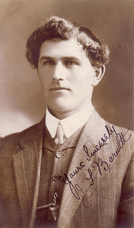 Jumbo Barnett Australian RU, RL & Olympic Gold Medallist